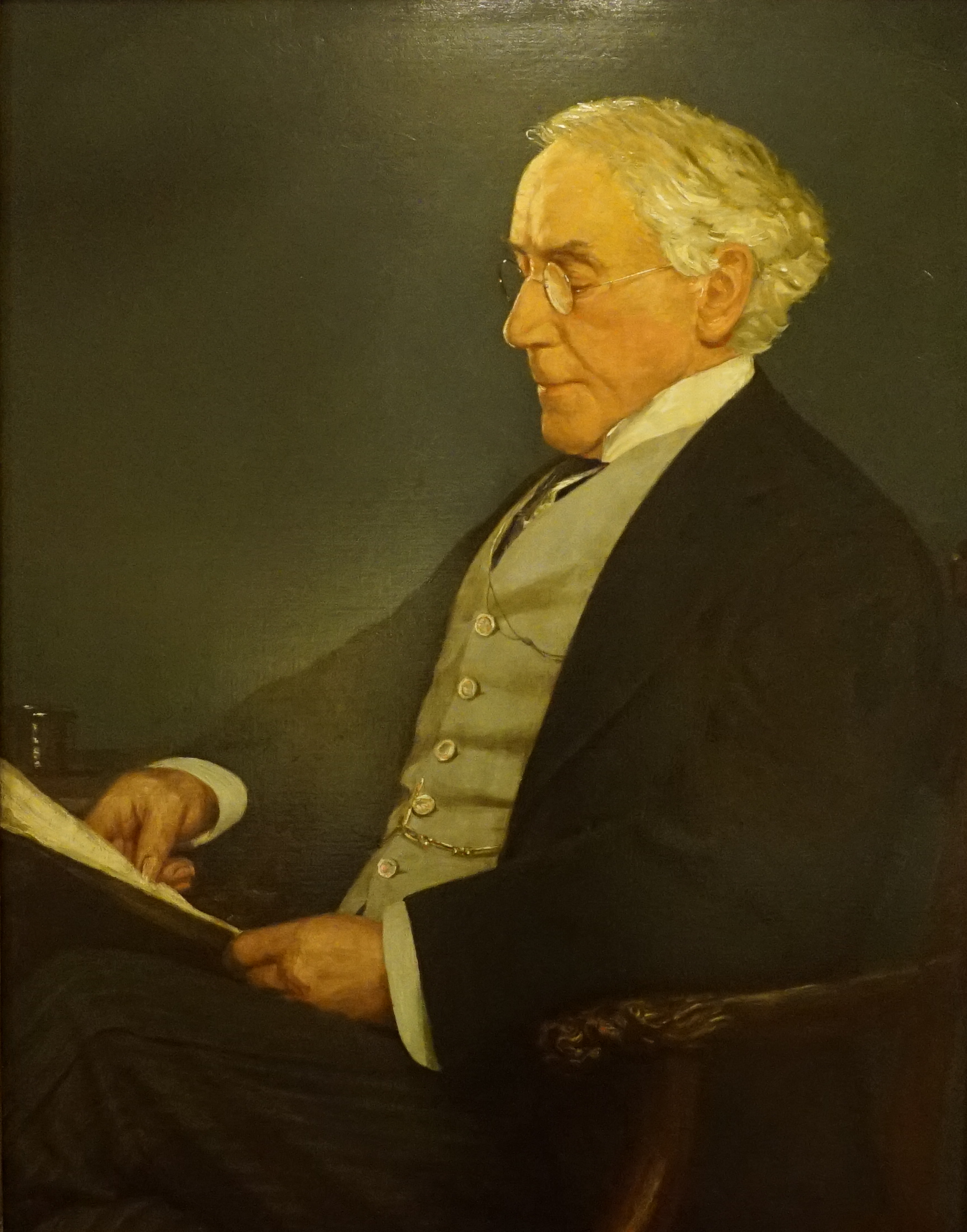 Portrait of Lord Gladstone of Harwarden, President of the NLC, 1932